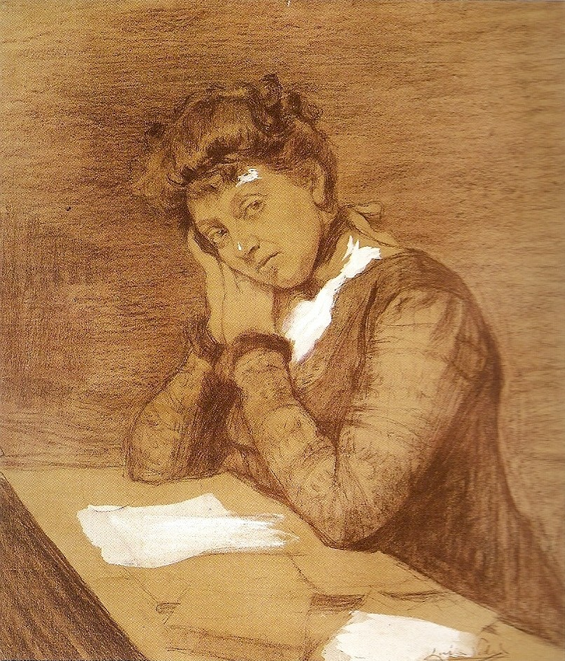 Carme Karr